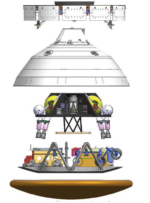 The two martian rovers of the mission Exomars 2018 - Mars Astrobiology Explorer-Cacher (NASA) and Exomars rover (ESA) would be enclosed in an aeroshell inside the cruise stage for the duration of cruise. The entry system would consist of the aeroshell, which would protect the pallet, rovers, and descent stage during cruise and entry, and a supersonic parachute to slow the entry vehicle until the sky crane and its payload are released. The descent stage would employ a platform above the pallet and rovers to provide powered descent and a sky crane to lower the platform and rovers onto the surface of Mars.